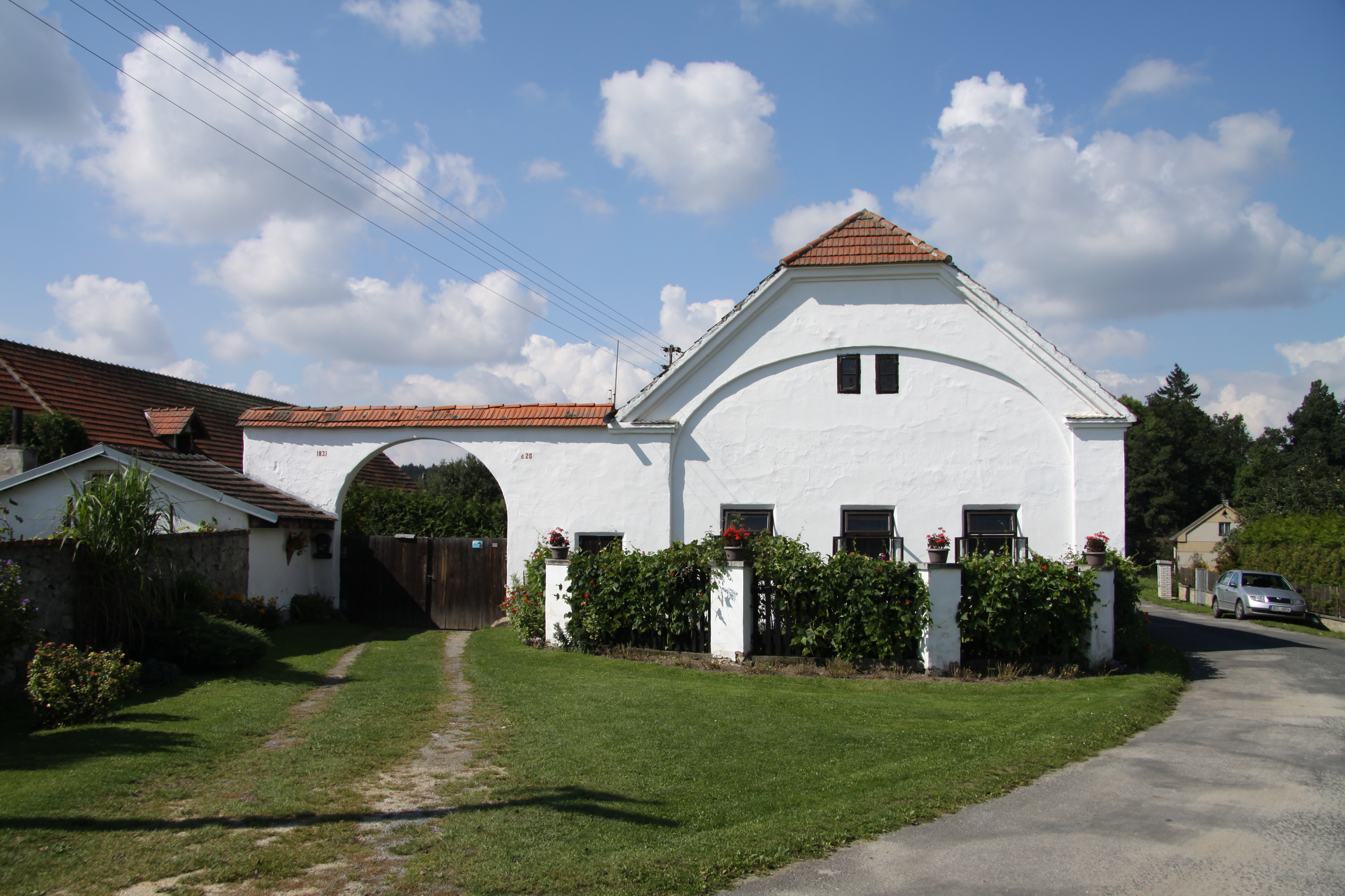 Zbonín, part of village Varvažov in Písek District, Czech Republic